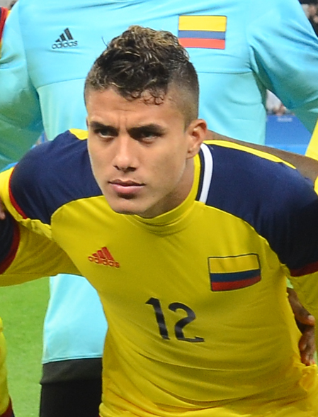 São Paulo - Colômbia vence a Nigéria por 2x0 na Arena Corinthians (Rovena Rosa/Agência Brasil)